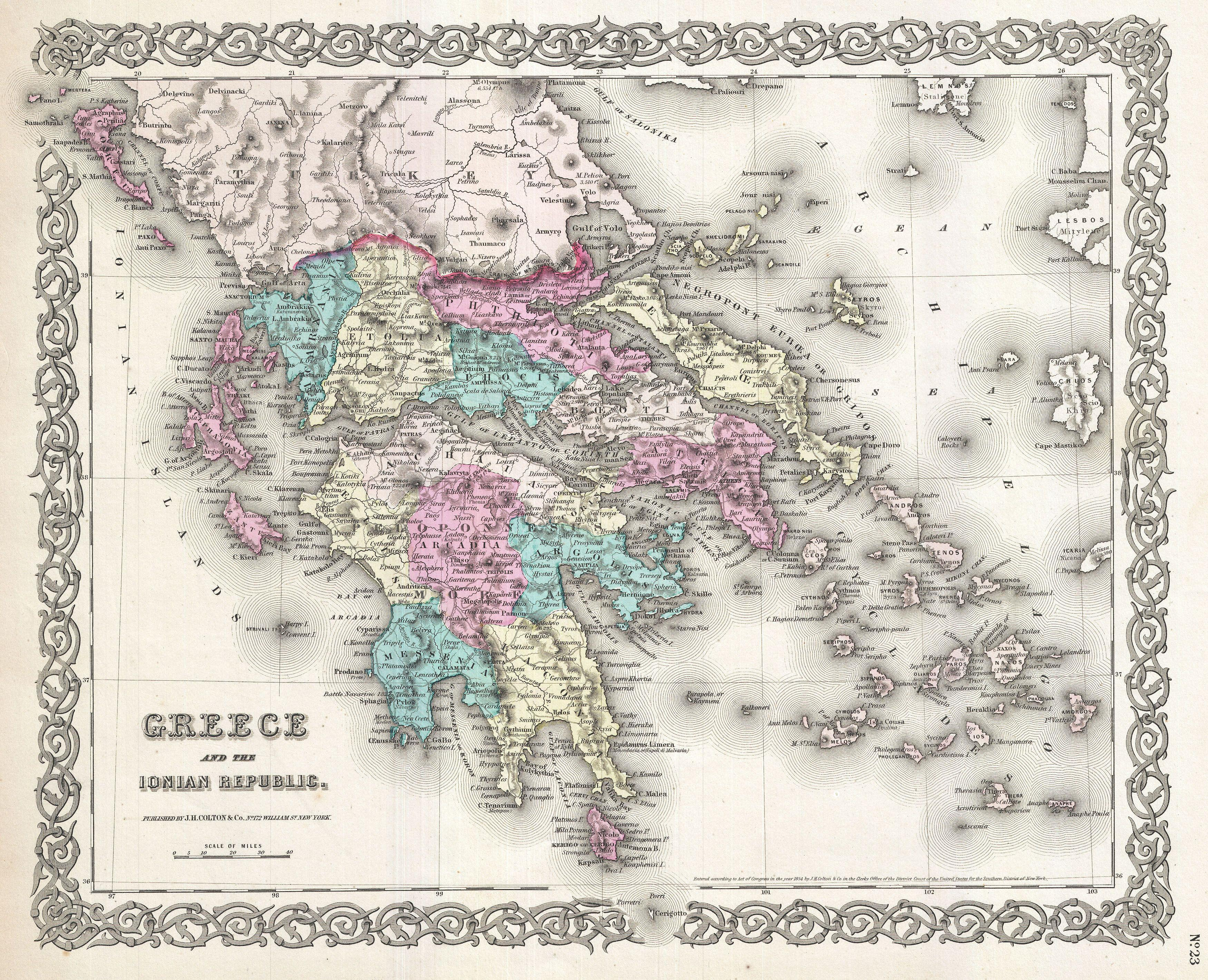 A beautiful 1855 first edition example of Colton's map of Greece. Covers from Corfu to Thera and Lesbos. Color coded according to region. Throughout, Colton identifies various cities, towns, rivers and assortment of additional topographical details. Surrounded by Colton's typical spiral motif border. Dated and copyrighted to J. H. Colton, 1855. Published from Colton's 172 William Street Office in New York City. Issued as page no. 23 in volume 2 of the first edition of George Washington Colton's 1855 Atlas of the World .